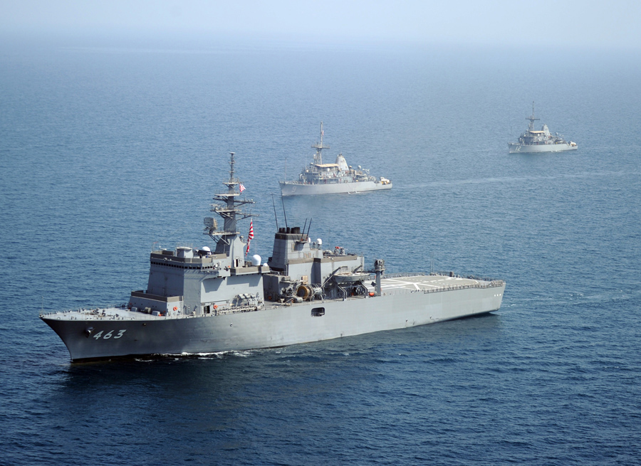 (Sept. 20, 2012) - JS Uraga (MST-463), USS Pioneer (MCM-9) and USS Ardent (MCM-12) sail during the International Mine Countermeasures Exercise 2012. IMCMEX 12 includes navies from more than 30 countries whose focus is to promote regional security through mine countermeasure operations in the U.S. 5th Fleet area of responsibility. (U.S. Navy photo by Mass Communications Specialist 2nd Jamar Perry / Released) Nikon D3s